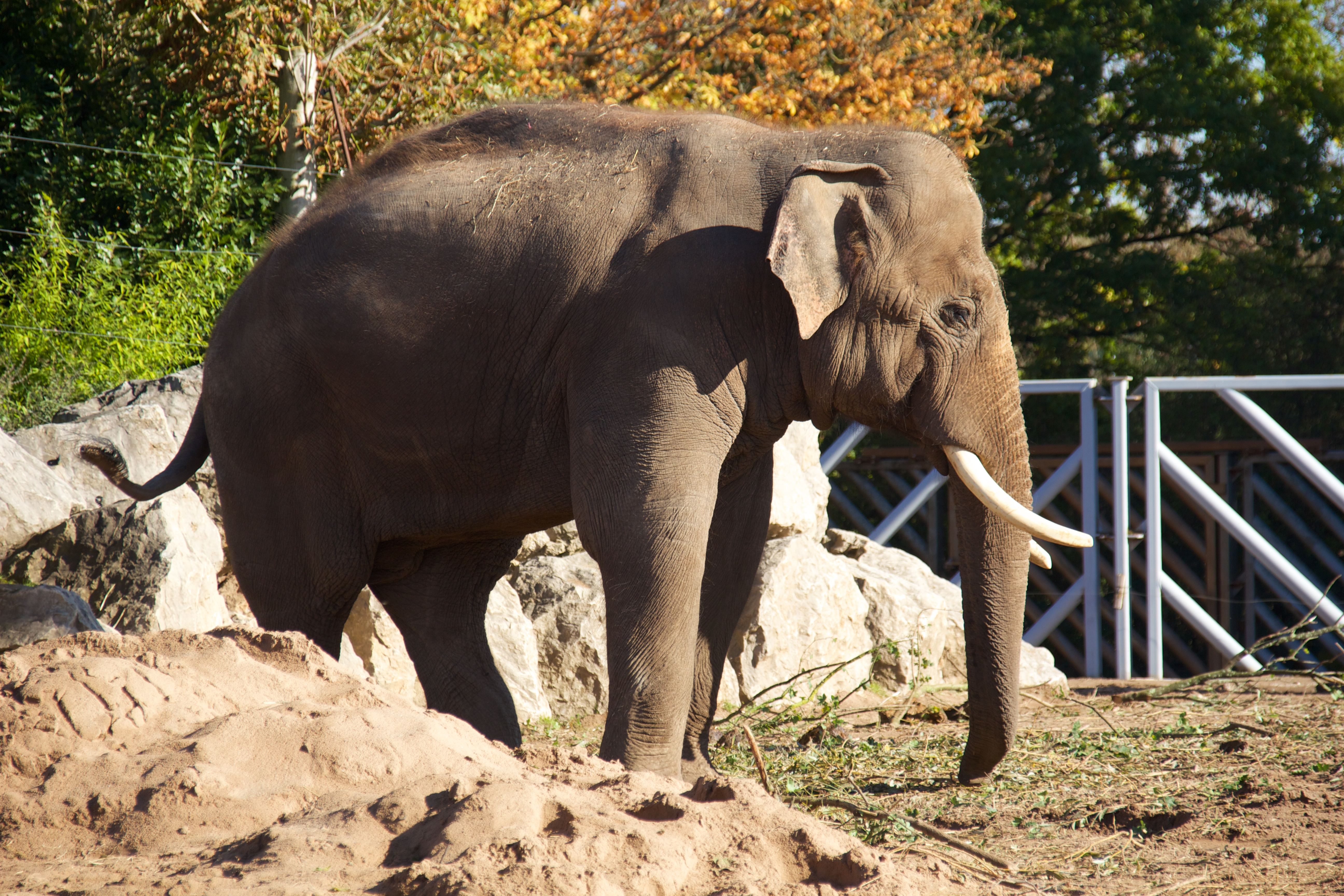 Asian Elephant. Elephas maximus. At Chester Zoo.